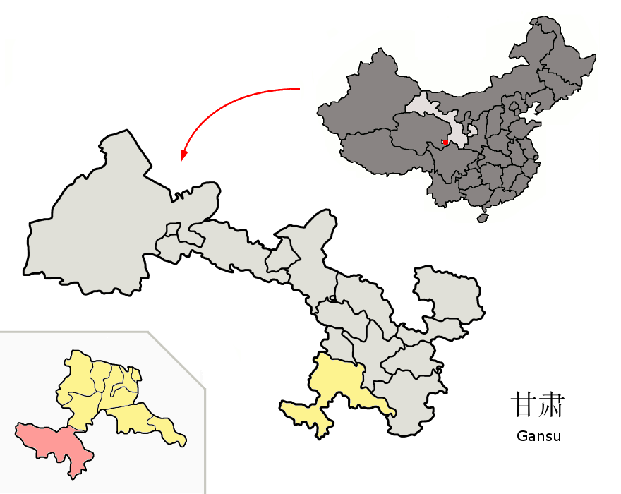 Location of Maqu County (pink) and Gannan Prefecture (yellow) within Gansu province of China Map drawn in september 2007 using various sources, mainly : Gansu province administrative regions GIS data: 1:1M, County level, 1990 Gansu Counties map from